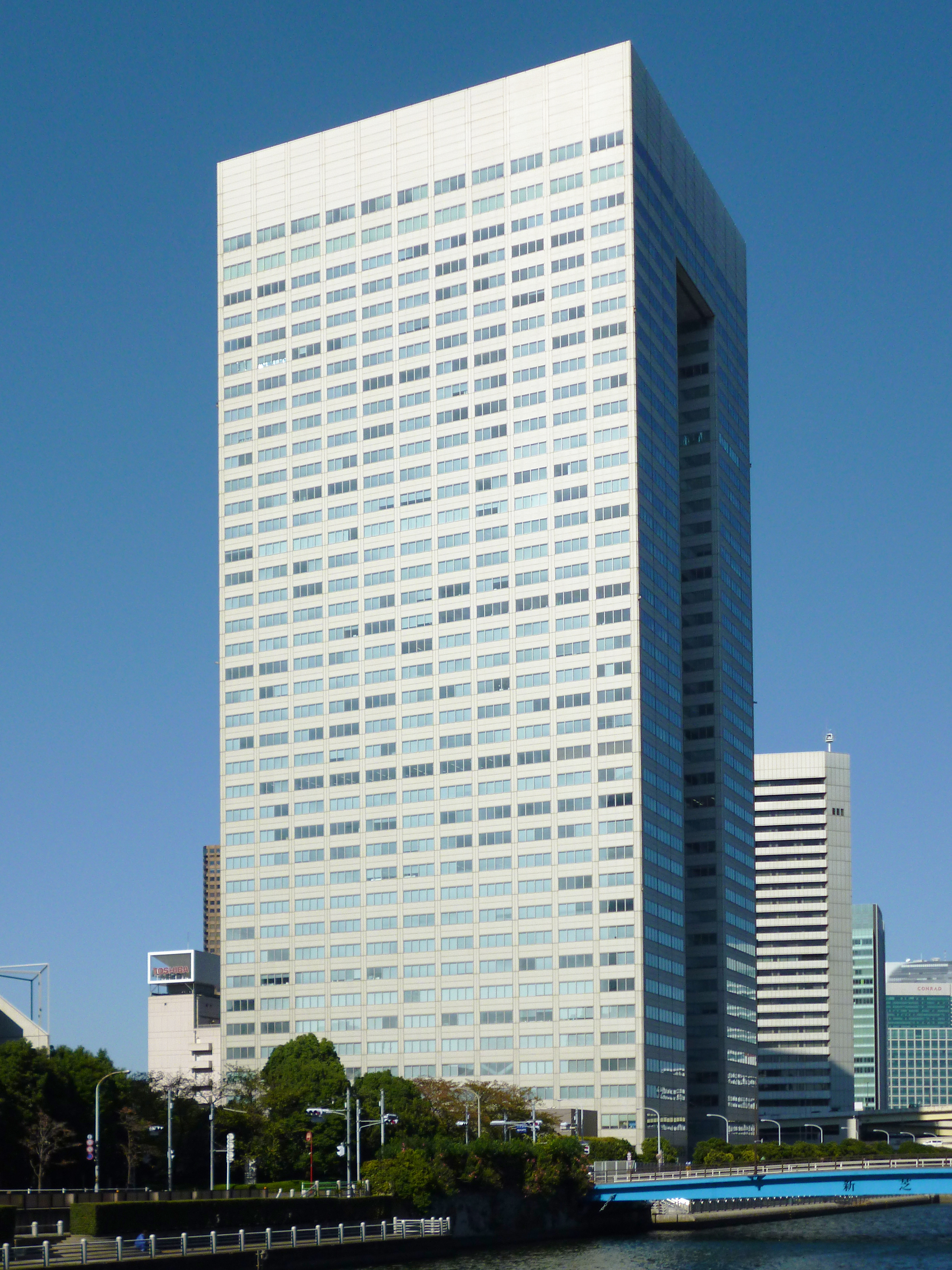 Hamamatsucho Building (Old name:Toshiba Building) in Tokyo, Japan.The Headquarters of Toshiba Corporation and Cosmo Oil Company.